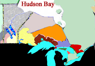 Anishinaabe land cessions in eastern Canada 1850-1930